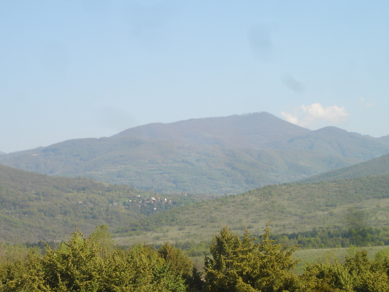 view towards the village of Osinchani on Karadzica mountain from the regional road to Kozjak dam, Macedonia